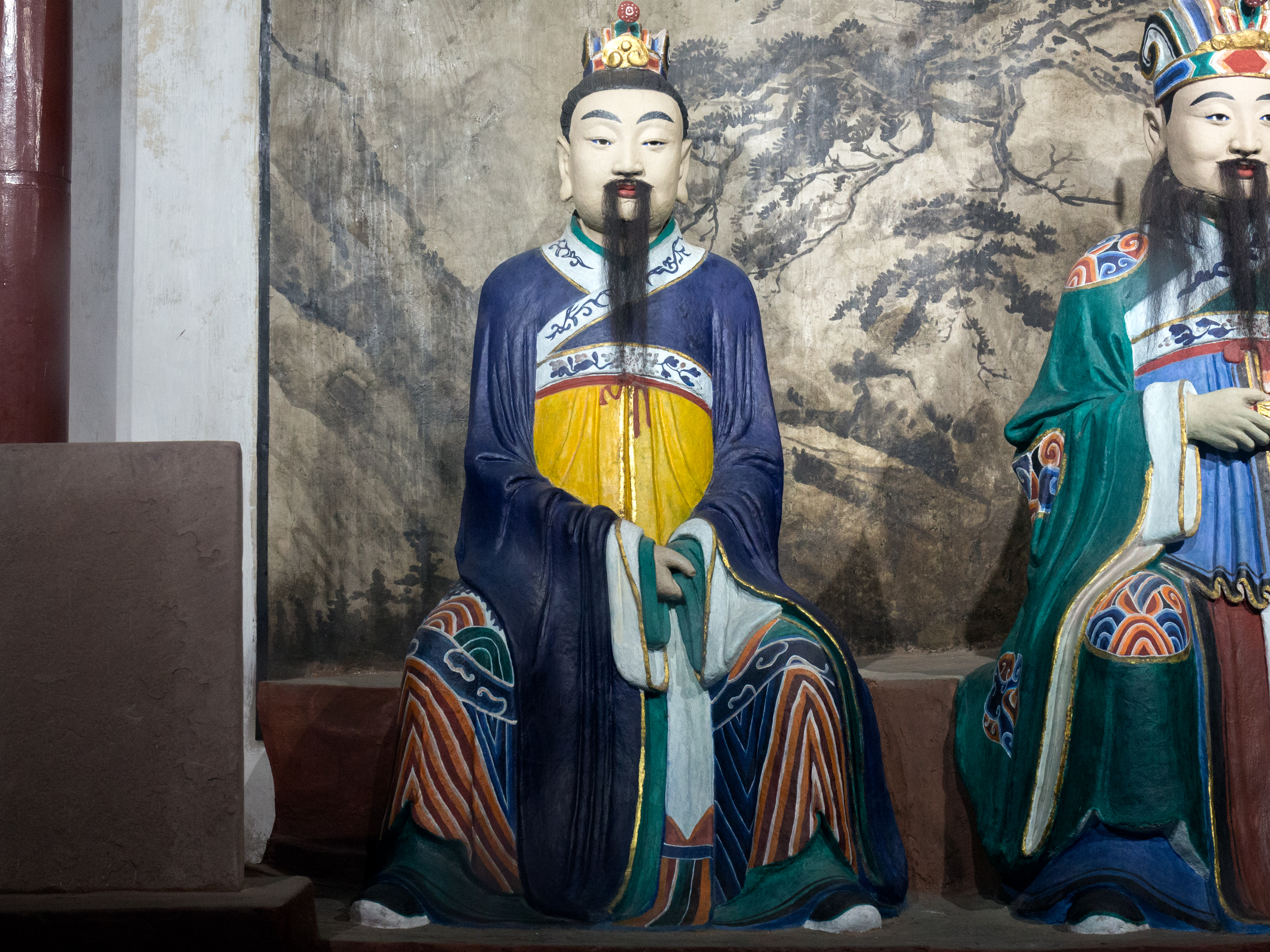 Ma Liang (馬良), though the eyebrows are not white...